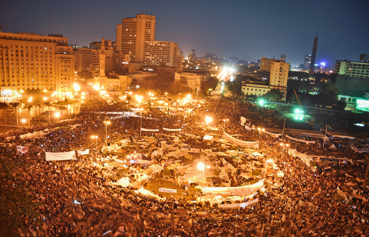 Over 6 million protestors in Tahrir Square only demanding the removal of the regime and for Mubarak to step down and there was many millions all over Egypt demanding the same things.